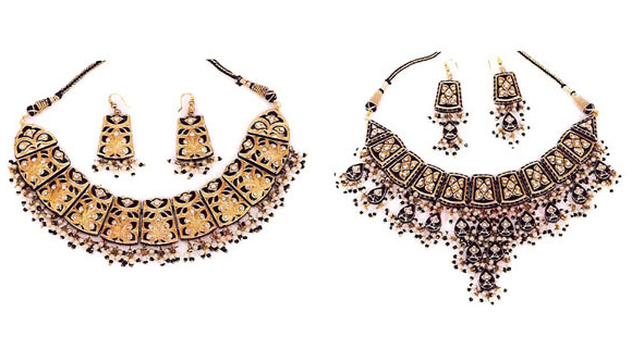 Traditional Rajasthani Lakh jewellery, Rajasthani Art and Culture workshop, Delhi.